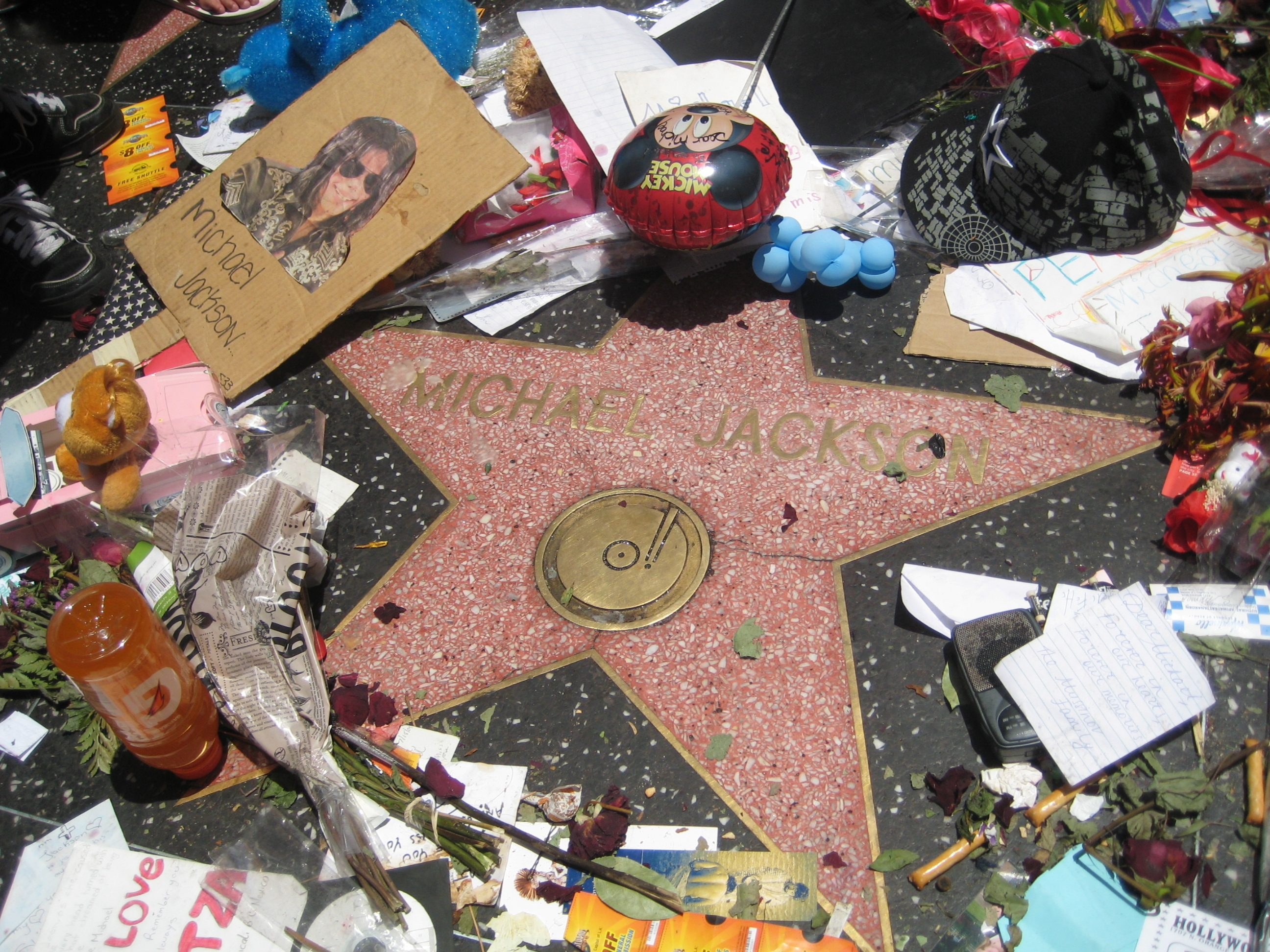 Michael Jackson Ster